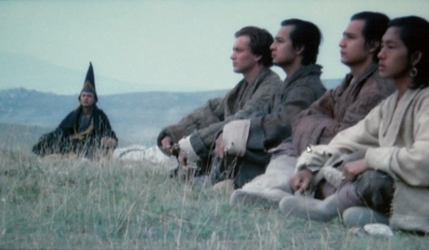 Scene from the film Milarepa (1974).